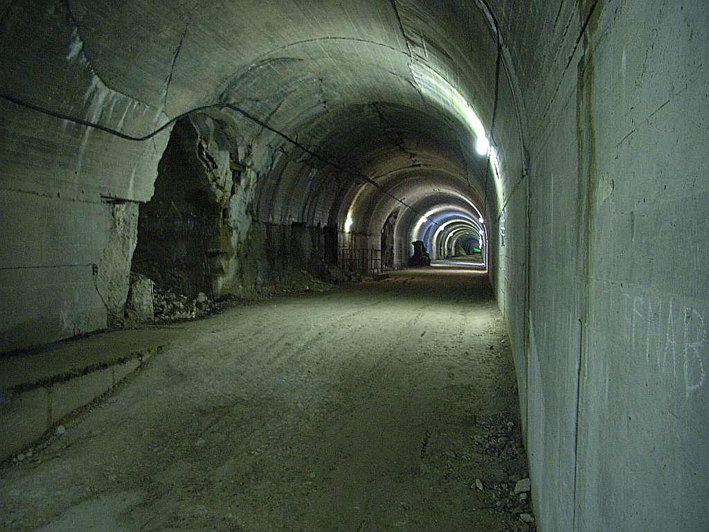 V3-Fortess Mimoyecques (France)